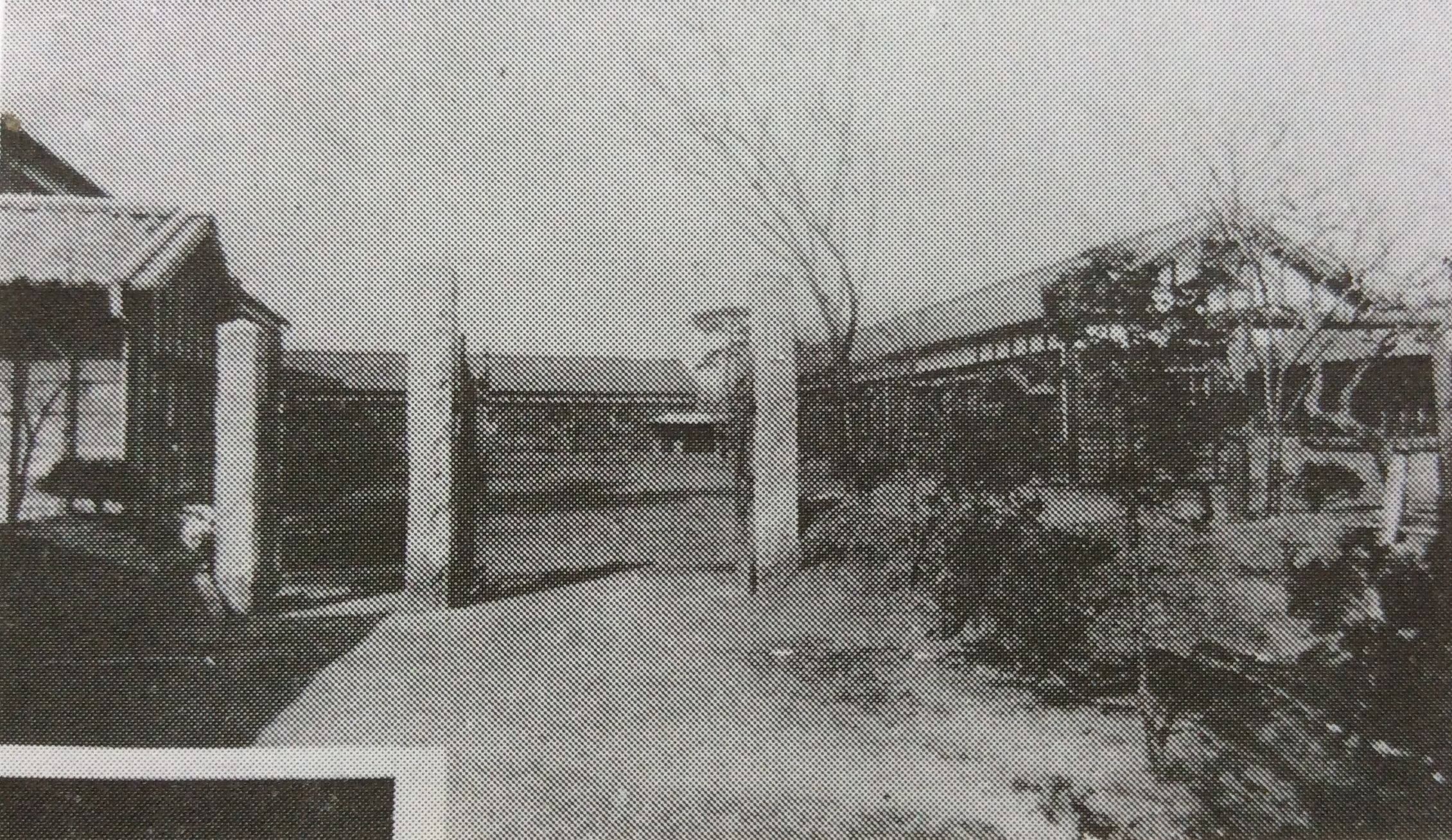 The original image was taken in 1924.